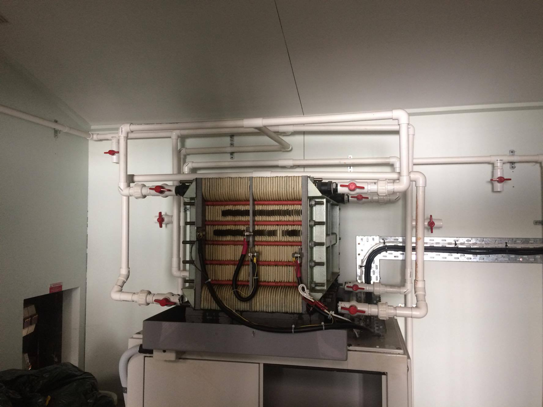 A Vanadium Redox flow battery located at the University of New South Wales (UNSW Australia), in Randwick, NSW. This particular one is located at the Randwick campus, rather than the main campus. Practical Vanadium Redox batteries were invented at UNSW by Professor Maria Skyllas-Kazacos. This particular battery is a part of an integrated grid-tie system in conjunction with a solar array and wind turbine, but it is currently out of use. Not shown are the electrolyte tanks and pumps, which are below the cell stack.